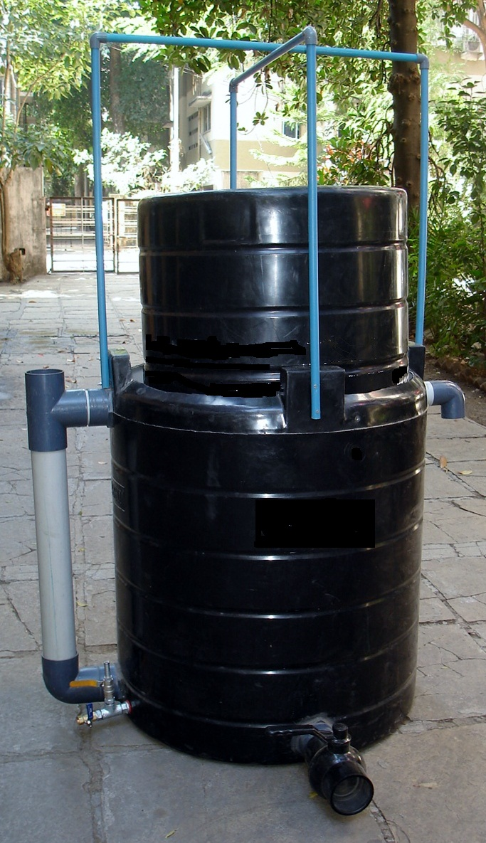 Samuchit Household biogas Plant can be constructed by anyone with basic knowledge of plumbing. This can be kept on an open terrace or in a courtyard, and uses kitchen waste and plate waste as feed stock. This is an eco-friendly way to deal with organic waste generated in urban household kitchens. For more information